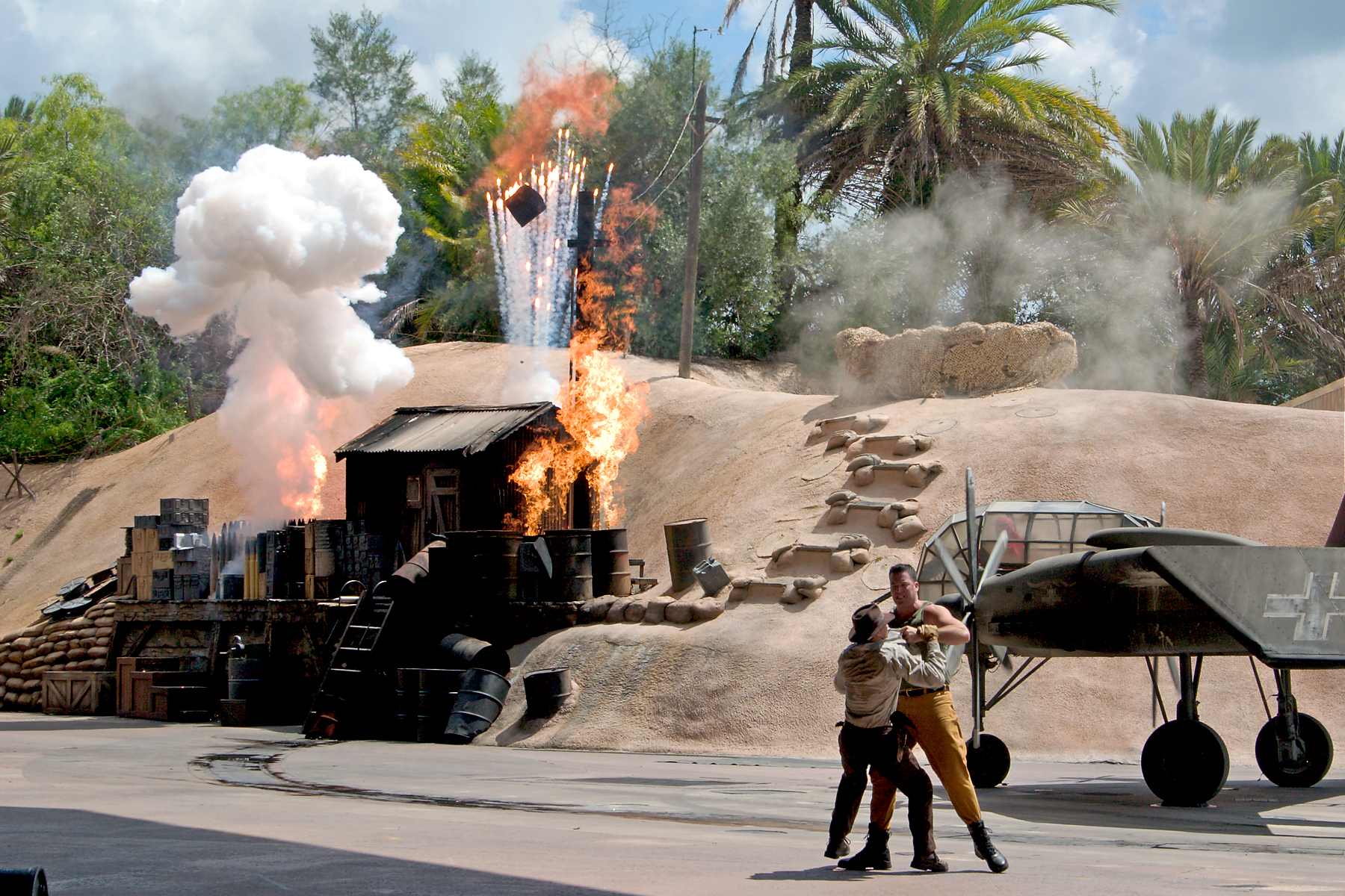 Action on the set of Indiana Jones Epic Stunt Spectacular at Disney-MGM Studios, Orlando, Florida. Author: David Bjorgen